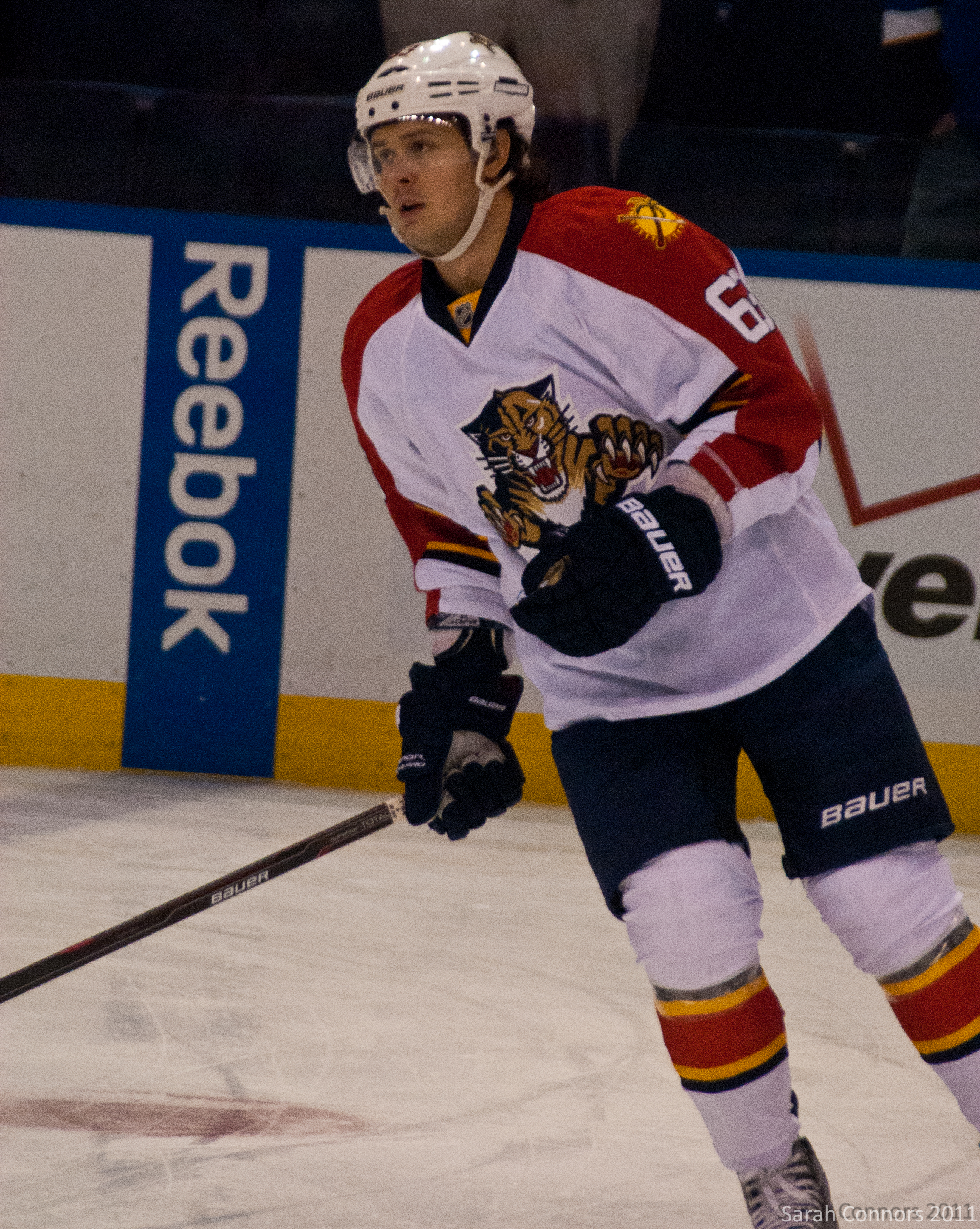 Panthers vs Blues-8388.jpg